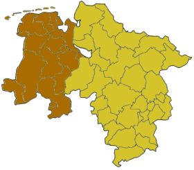 Map of Lower Saxony highlighting Weser Ems. Created from Wikipedia:WikiProject German districts/Maptemplates#Niedersachsen / Lower Saxony